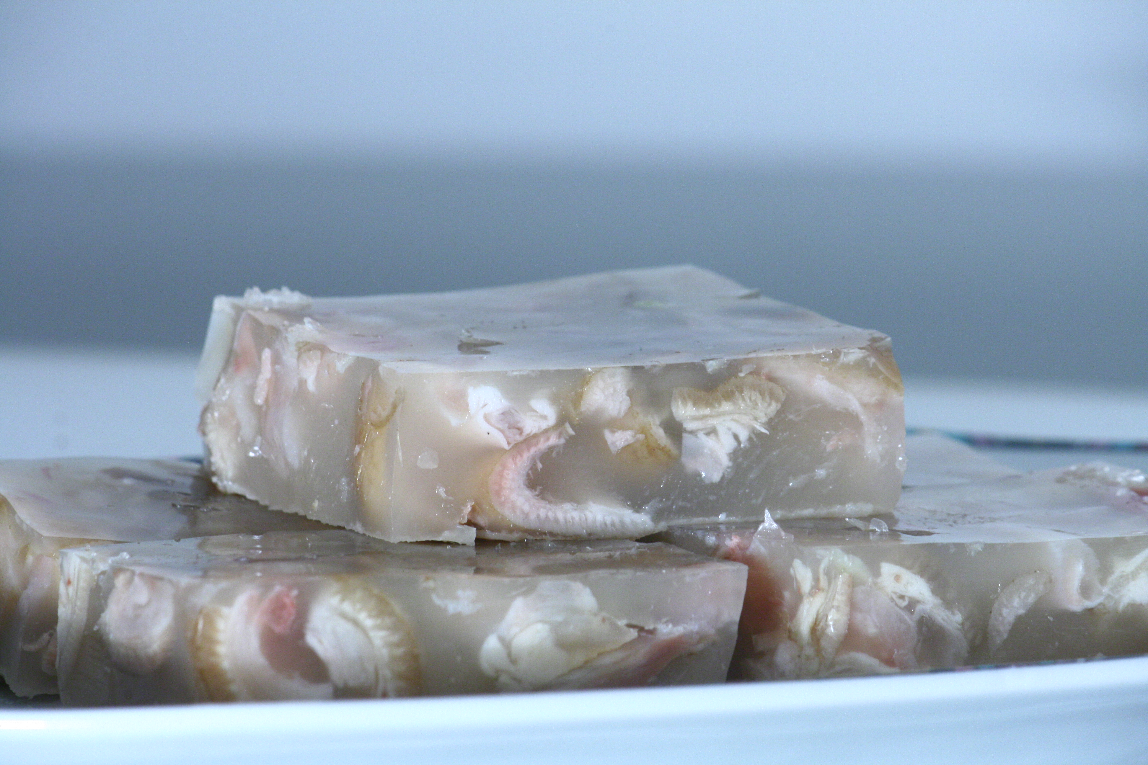 Pihtije cubes, a dish from Serbian cuisine, consisting basically of meat and water. Picture taken at Bogojavljenje (Epiphany) in Vlasotince, south-east Serbia. According to Serbian tradition pihtije are made for this religious Christian feast day.